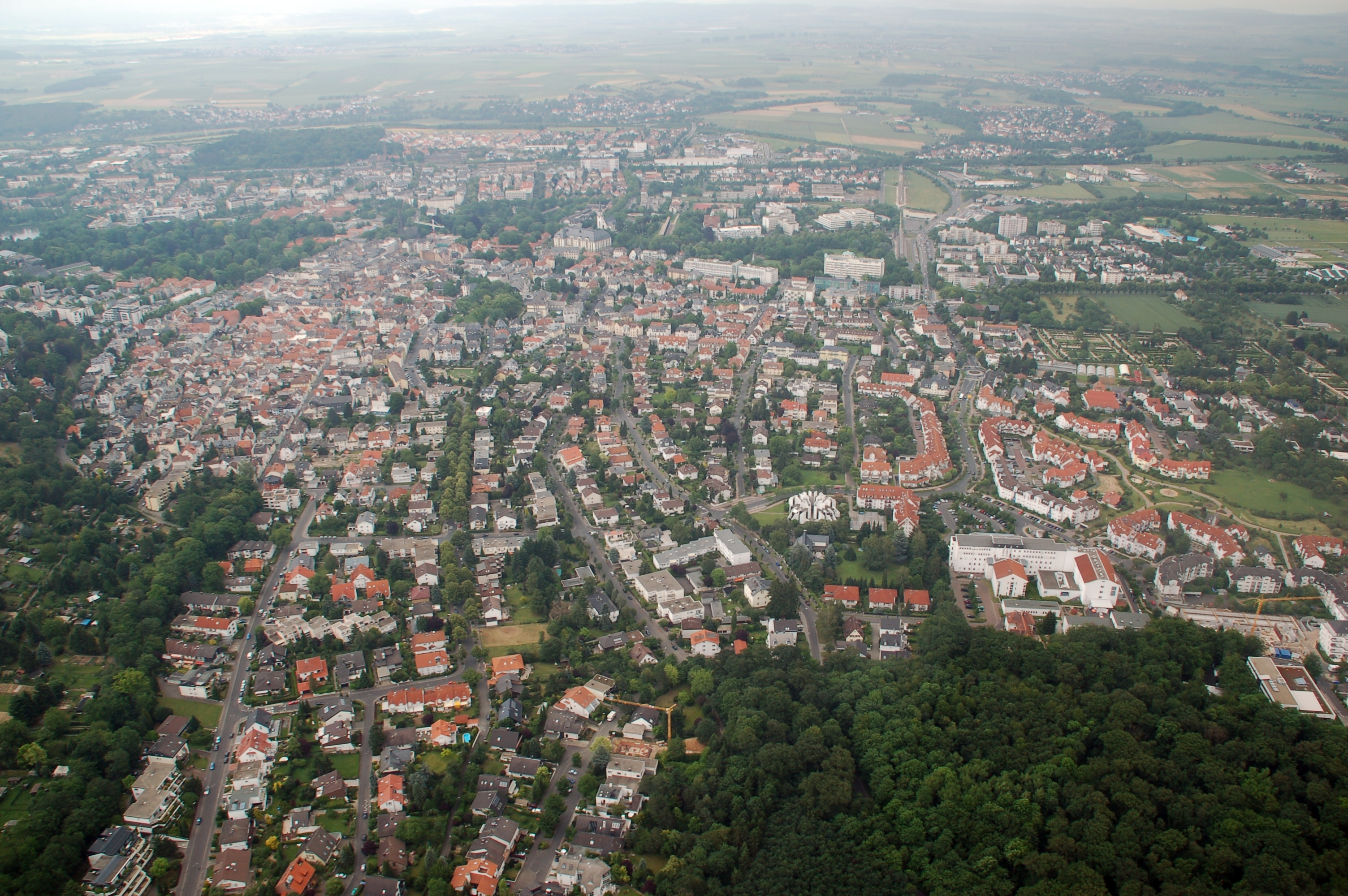 Aerial photograph of Bad Nauheim, Hessen, Germany